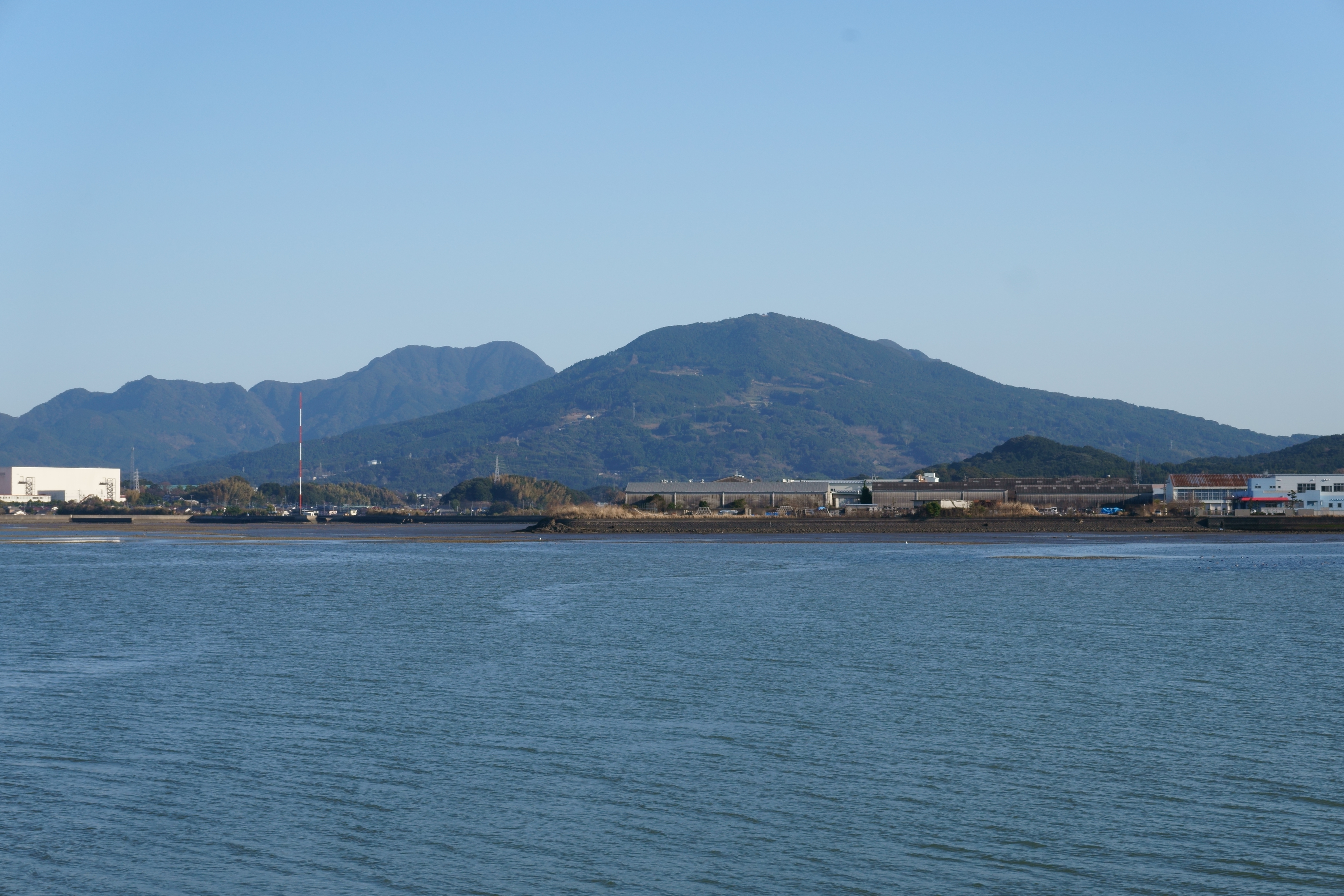 Mount Koshidake in Imari city, Saga prefercture. Taken from a quay near Kusukutsu Park.